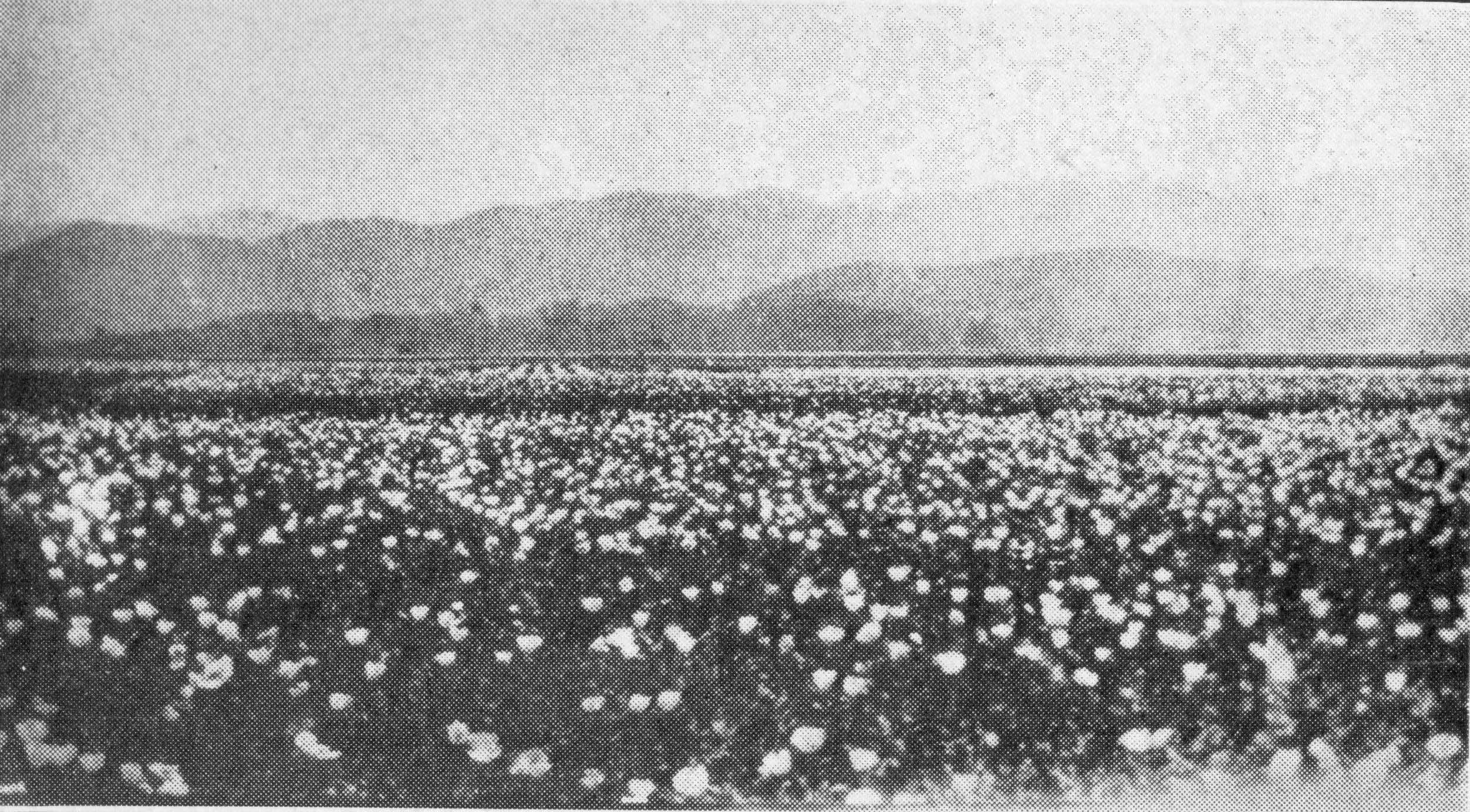 This photo was taken in the year 1932 in Fuzhou, China, seven miles from the home of US vice-consul Ralph Townsend.